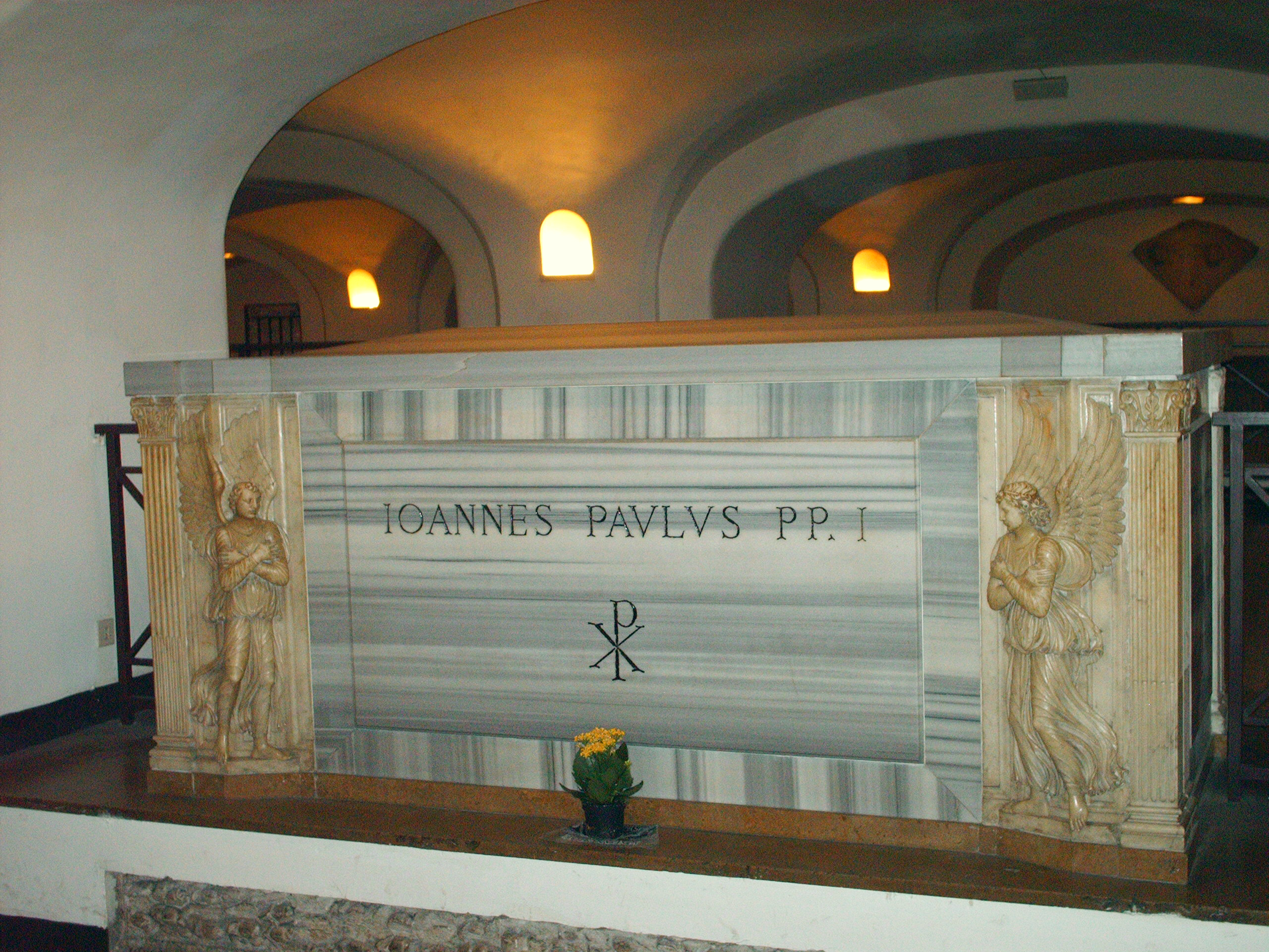 Tomb of pope Johannes Paulus I (Albino Luciani), "grotte vaticane" Basilica di San Pietro